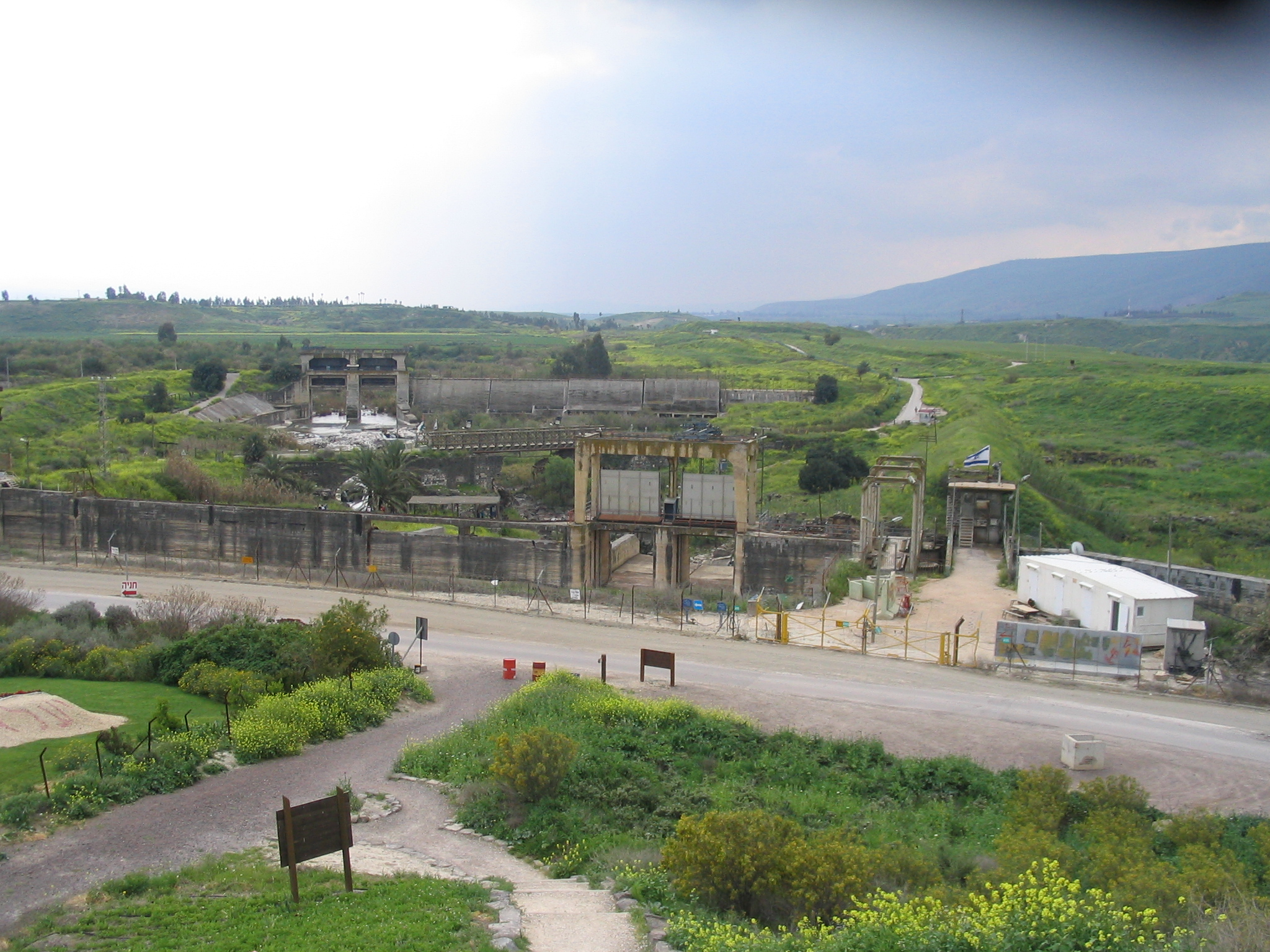 The first power plant in Palestine, established by the water engineer Rotenberg Venharim